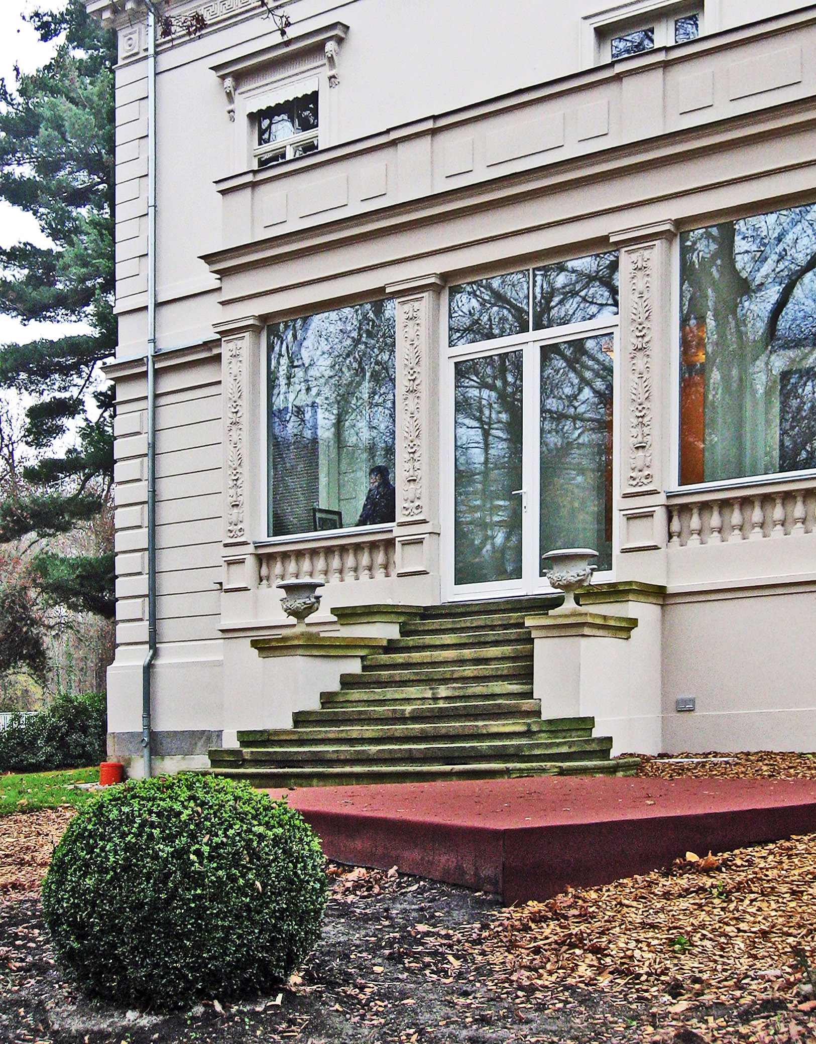 Staircase to the garden in the Klinger-Villa in Leipzig's Karl-Heine-Strasse 2